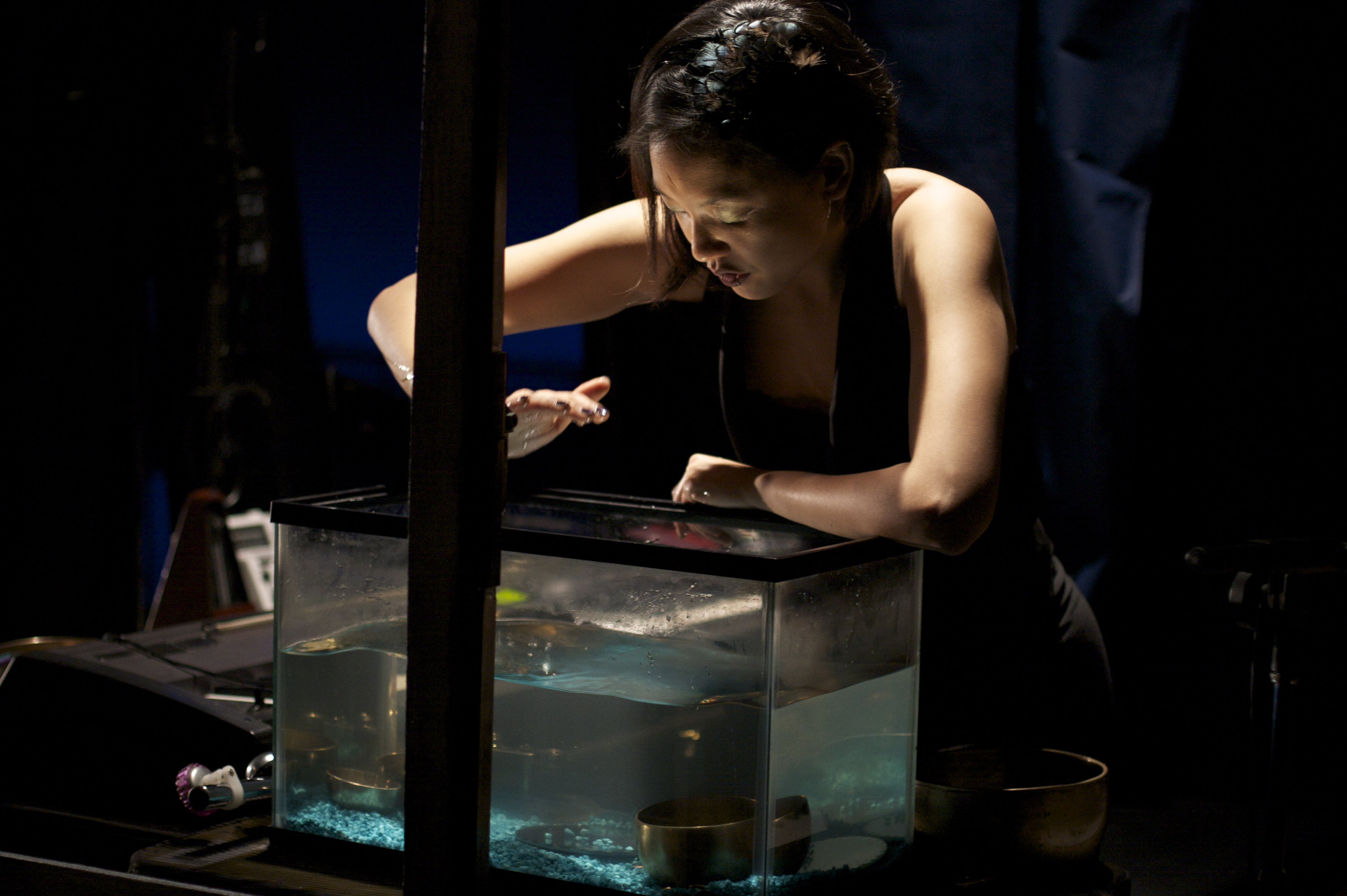 Bora Yoon performs the live score for "Wind Up Bird Chronicle". Based on the novel by Haruki Murakami. Directed by Stephen Earnhart.